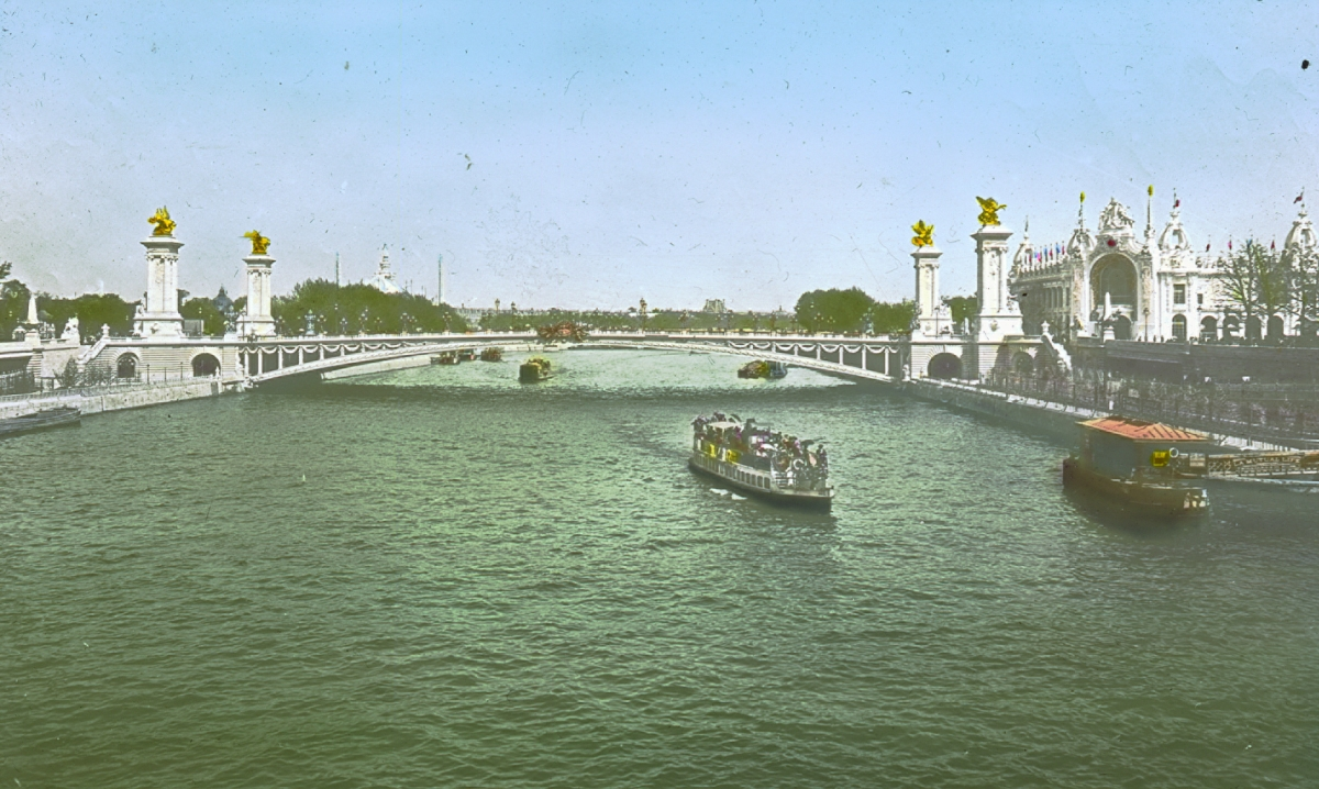 Paris Exposition: Pont Alexandre III, Paris, France, 1900. Pont Alexandre III Bridge. View of the span of the bridge over the river. Brooklyn Museum Archives.